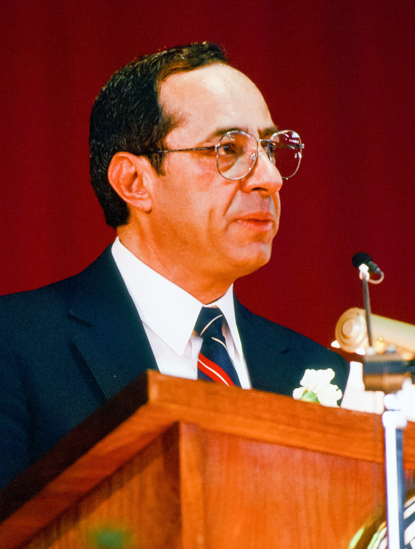 NY Governor Mario Cuomo speaks at Cornell Convocation May 1987. Film scan.